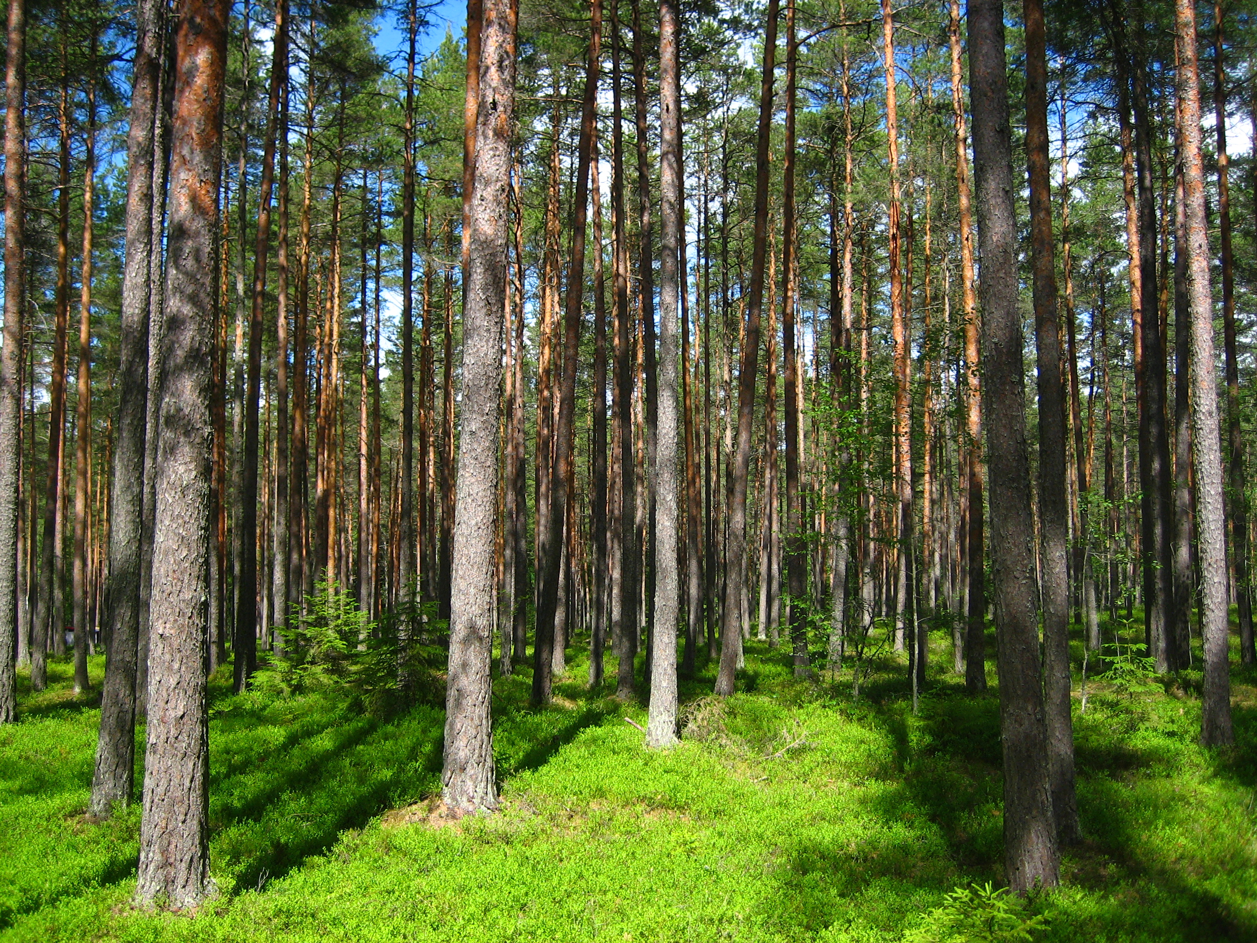 Finnish forest growing Scots pine (Pinus sylvestris) and Blueberry (Vaccinium myrtillus) in Satakunta